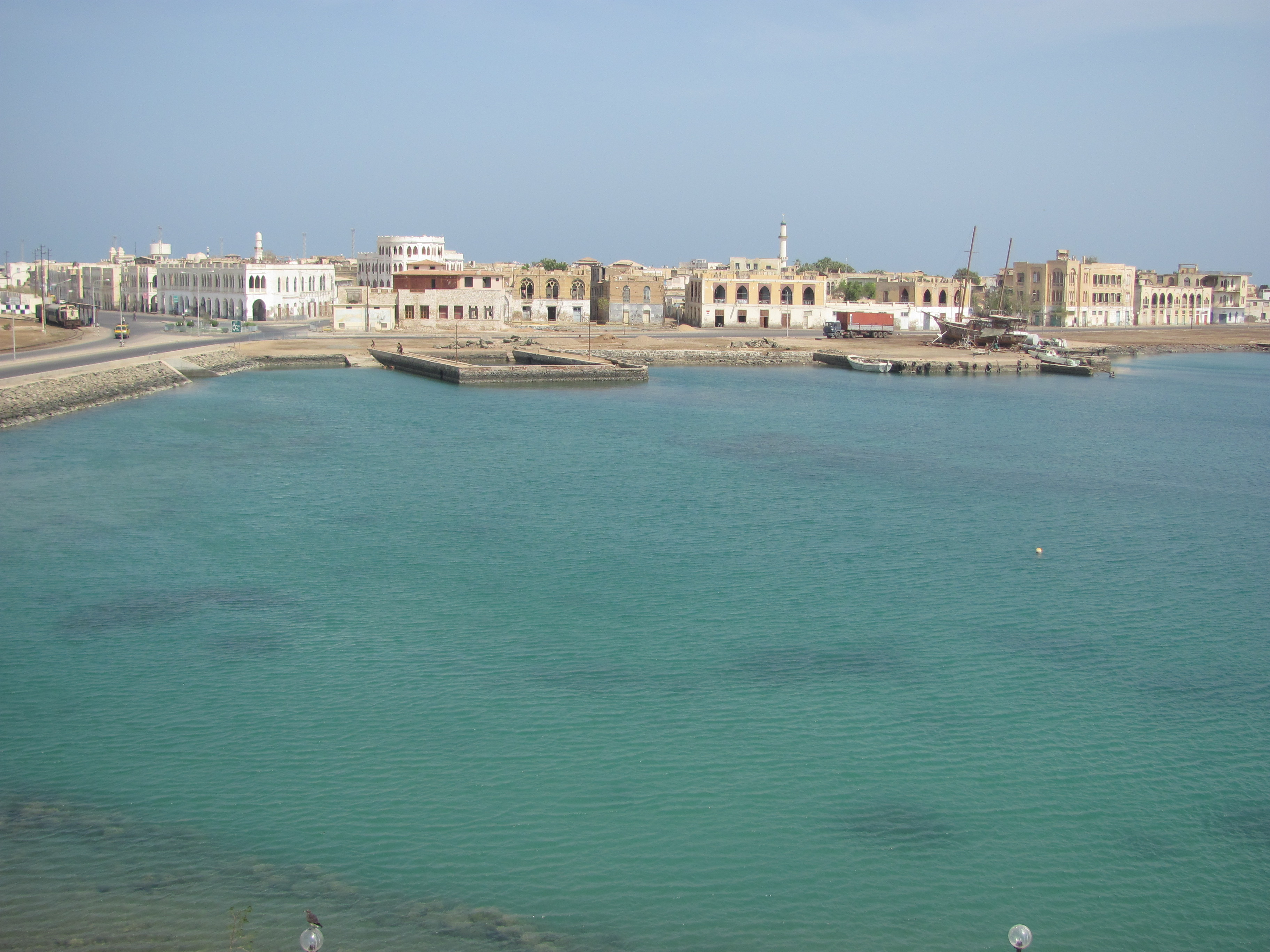 Panorama of historic center on the island of Massawa